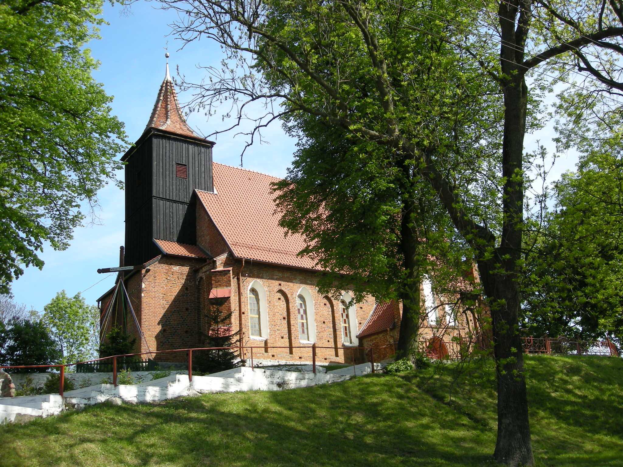 The church in Czarne Dolne, Poland.